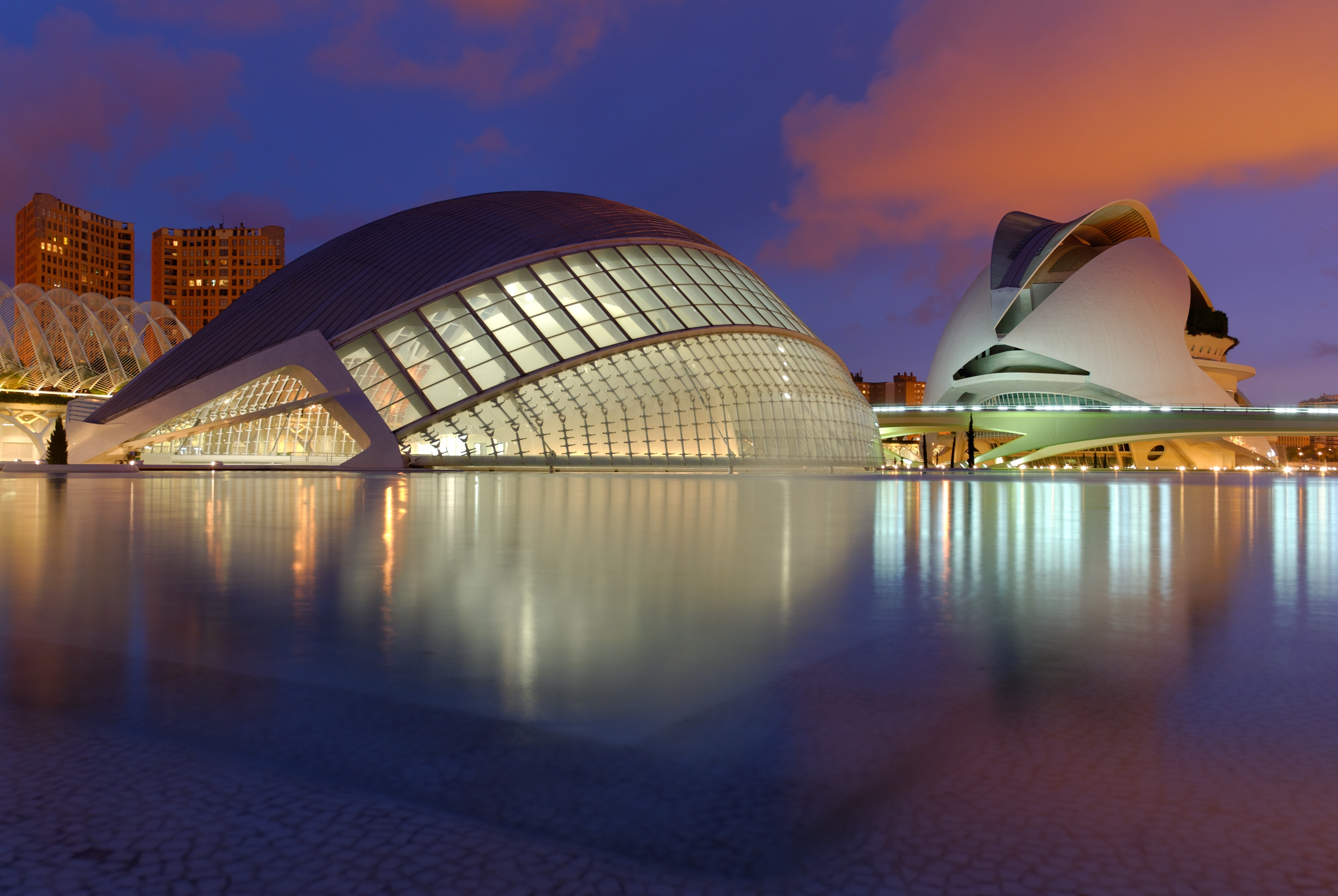 Ciutat de les Arts i les Ciències at night.